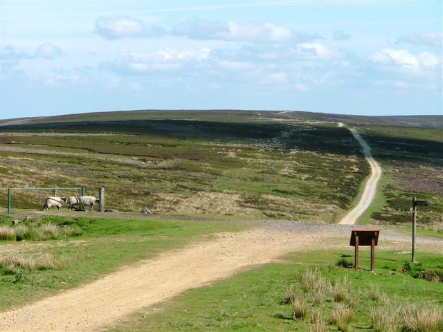 Bloworth Crossing. Where the Rosedale ironstone railway crossed the drovers road, seen here heading south along Rudland Rigg.